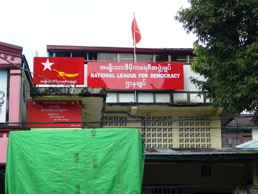 National League for Democracy Head Office, Yangon, Burma